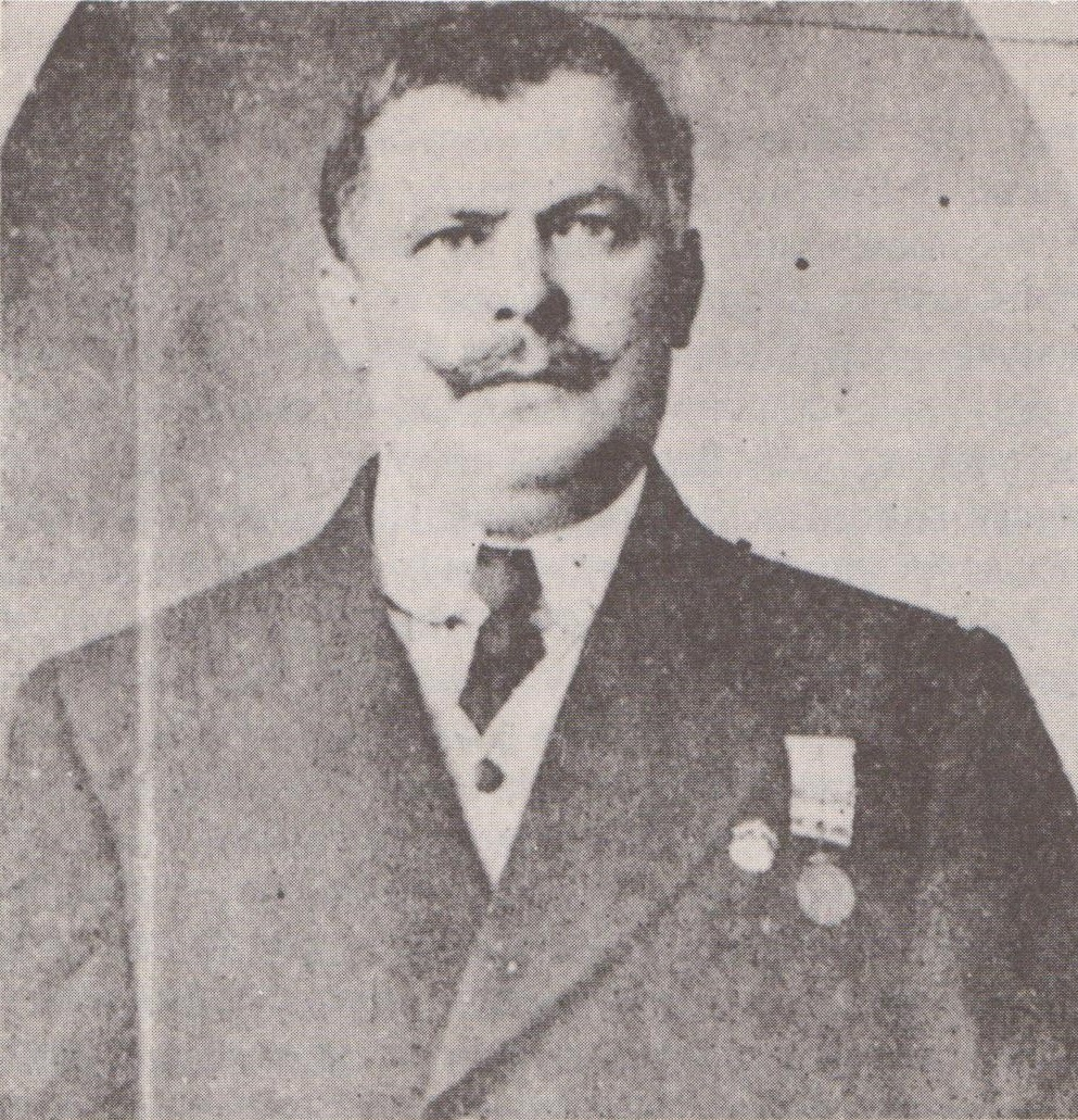 Greek revolutionary Ioannis Papakostas (John Costas), volunteer in the Second Boer War and First Balkan war.